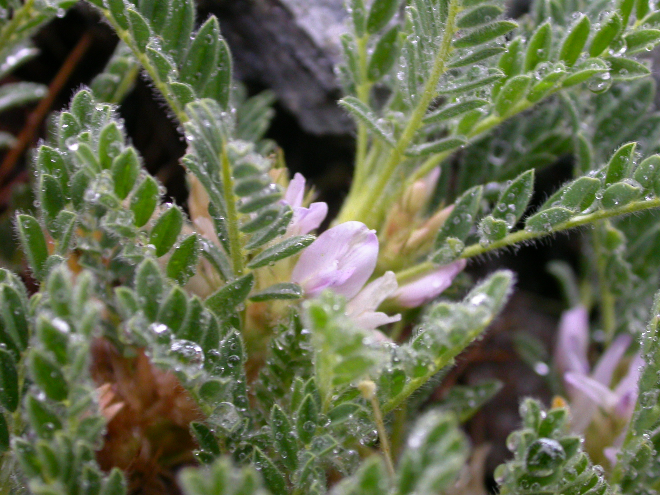 Astragalus sempervirens Zermatt, Riffelberg (Kanton Wallis, Switzerland), 2500 m Author: Barbara Studer – own photograph Date: 2.08.06